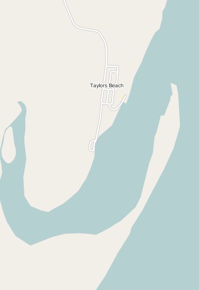 Map of Taylors Beach